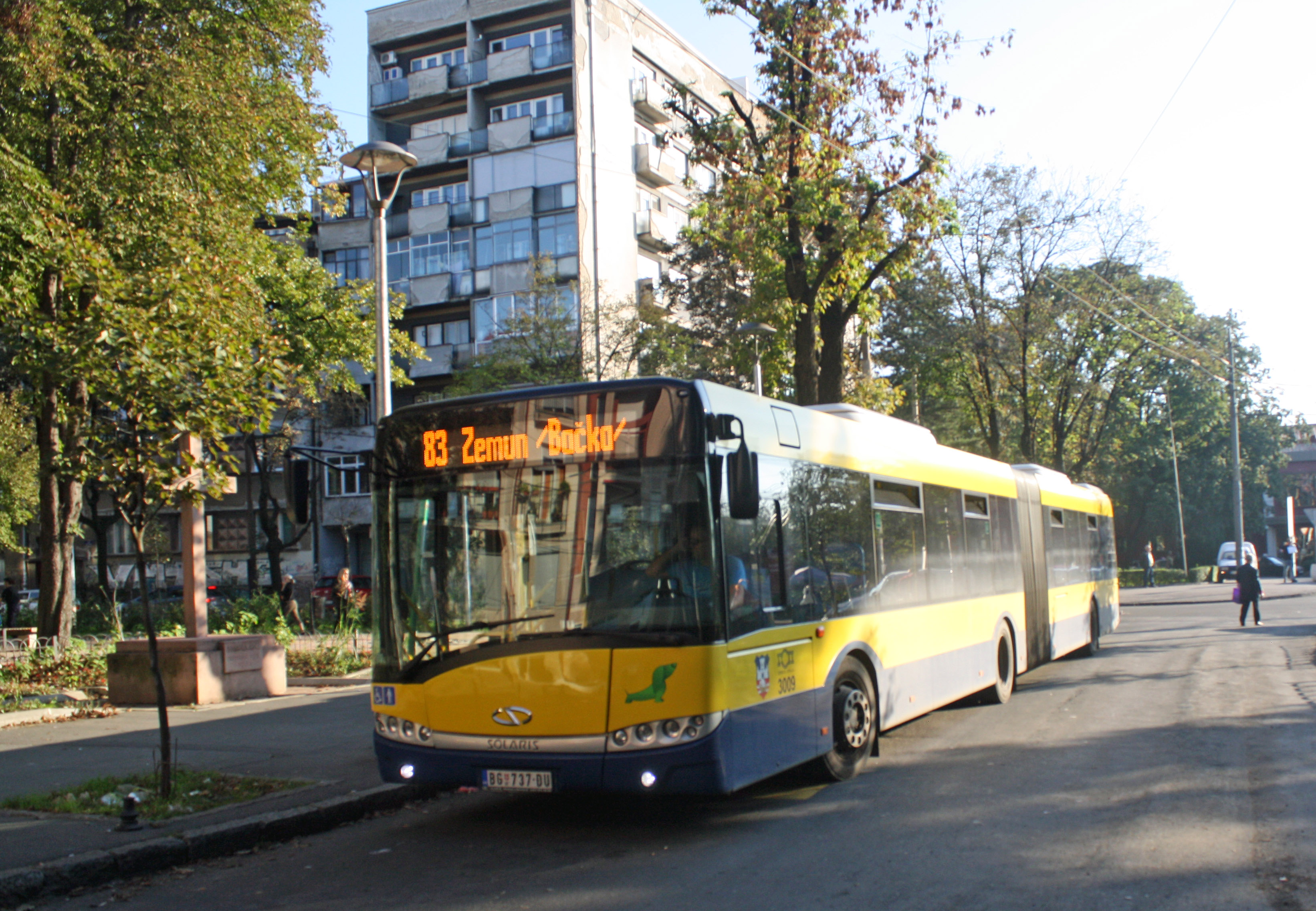 Solaris Urbino 18 in Belgrade.